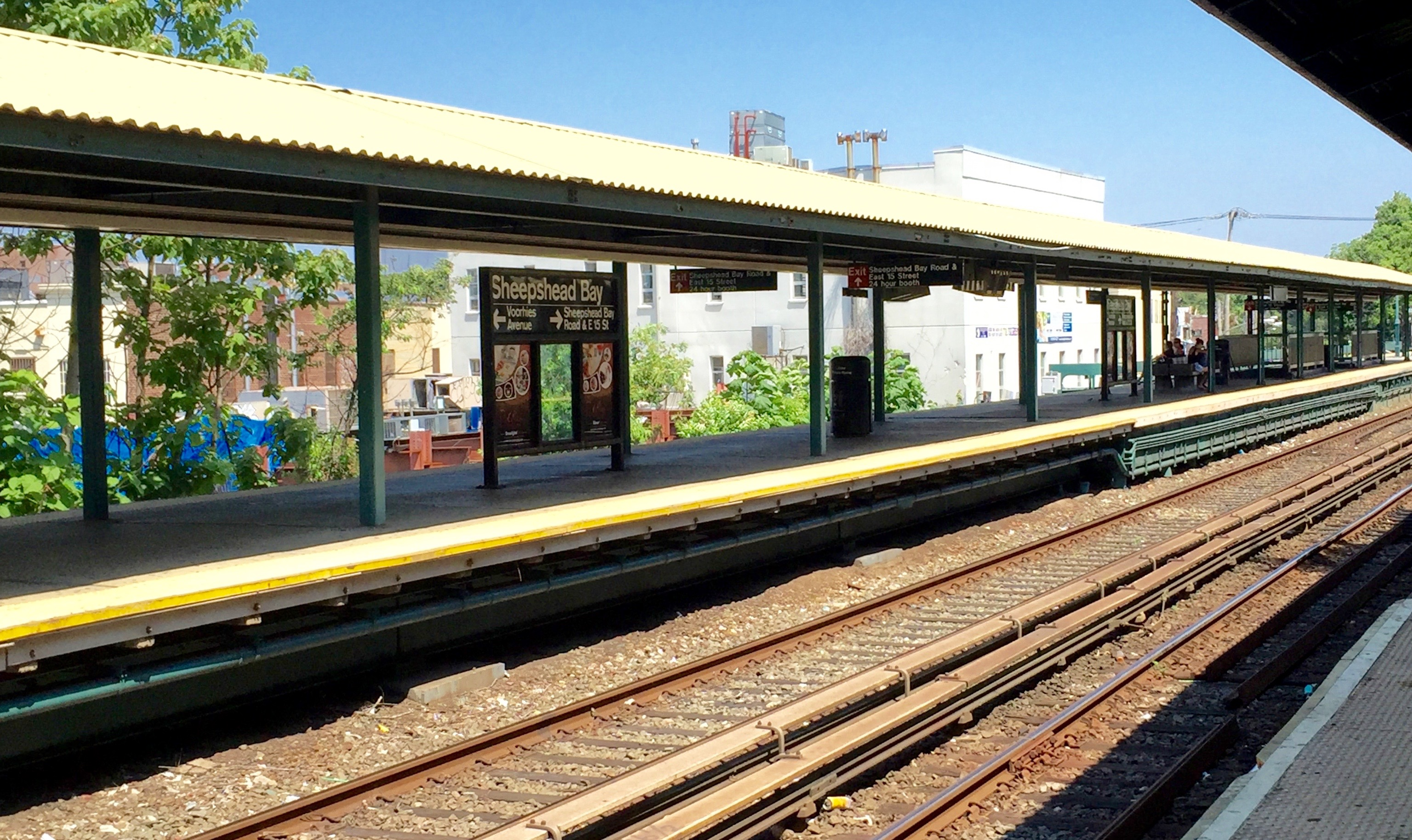 Coney island bound platform at Sheepshead Bay on the B/Q